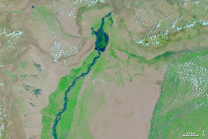 The image shows the Indus river in northwestern Pakistan. The image was taken of the river during monsoon season. The satellite picture was taken using visible light and infrared to better show the contrast between water and land. Water varies in colour from electric blue to navy. Vegetation is green and bare ground is pinkish brown. The nearly white to pale blue-green range is clouds.